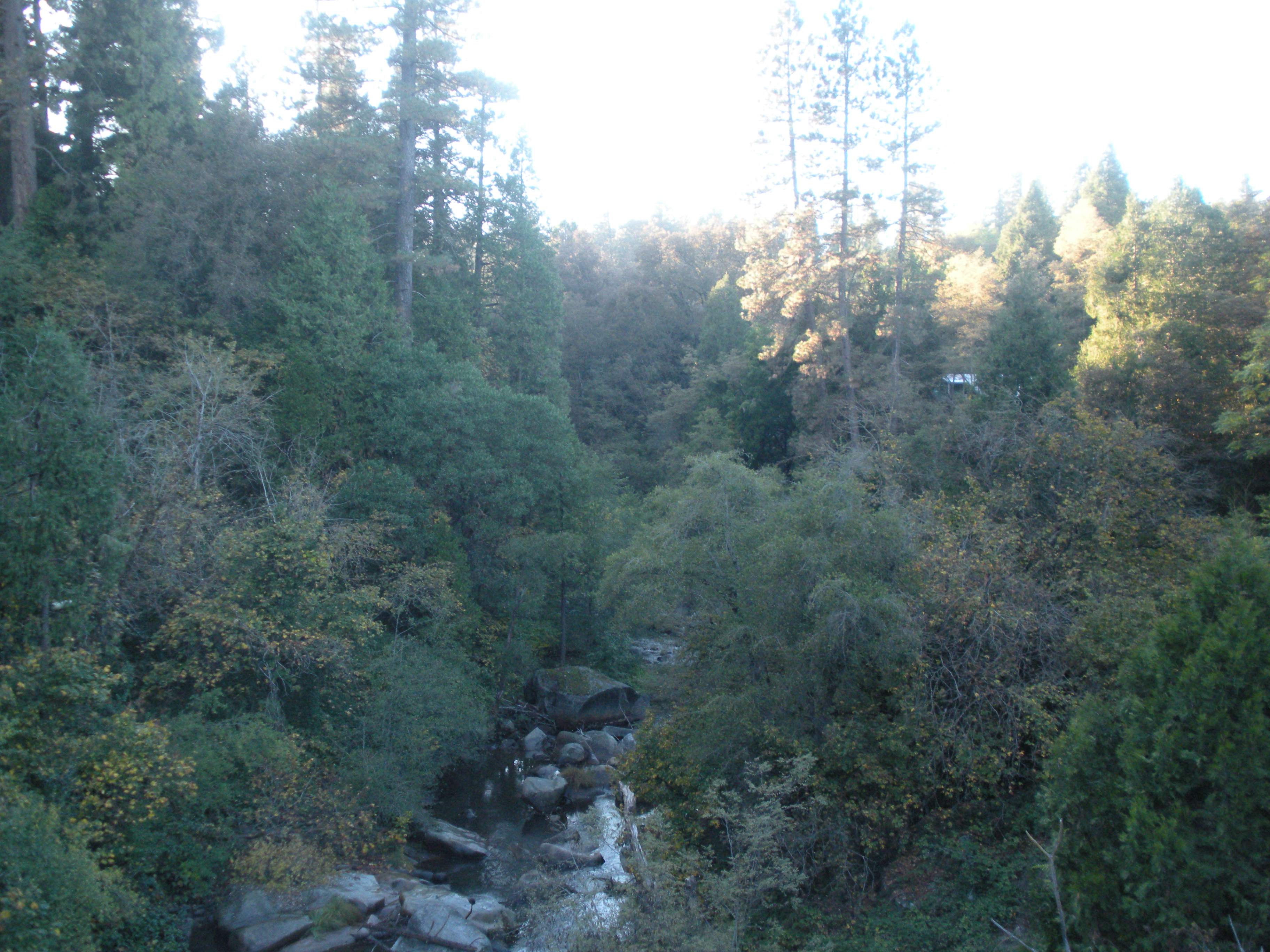 Deer Creek near Nevada City. Originally posted on Flickr